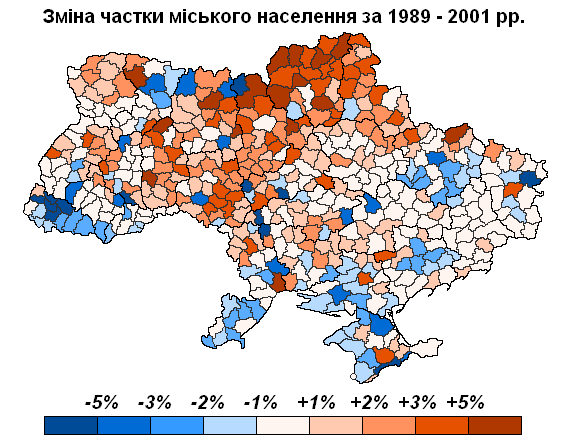 Urbanization rate change in Ukraine between 1989 and 2001 censuses